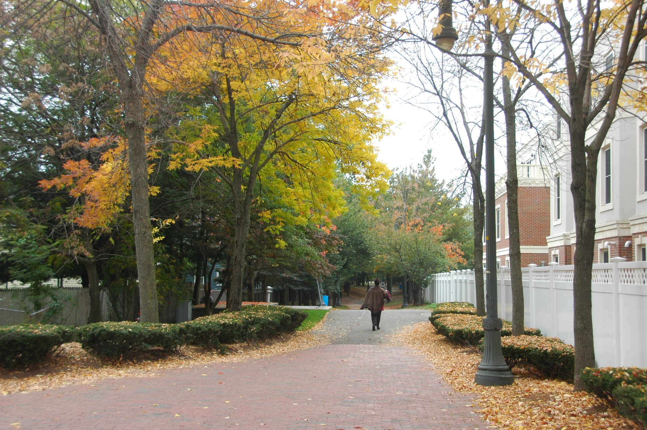 Autumn in the Alewife Linear Park, near Mass. Avenue, Cambridge, Massachusetts